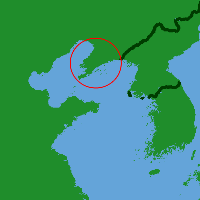 Location of Liaodong Peninsula 랴오둥 반도의 위치